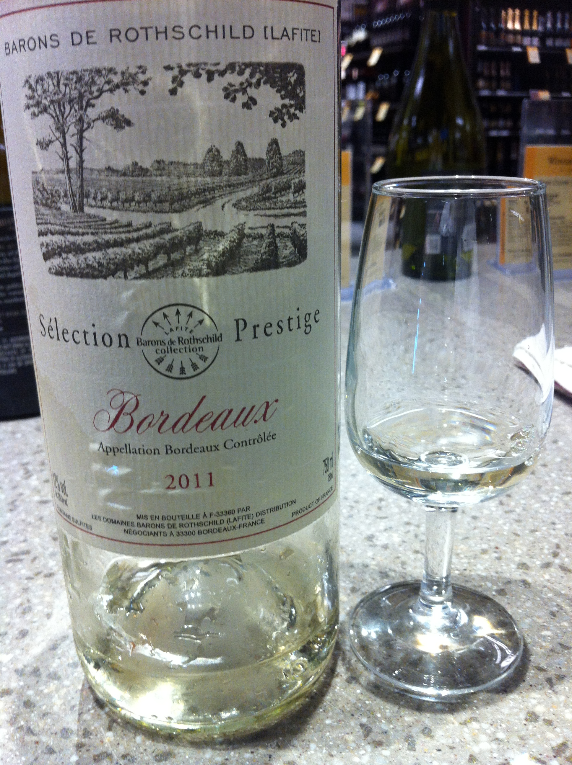 French Sauvignon blanc / Semillon blend from the Bordeaux wine region made by the Rothschild family of Chateau Lafite.